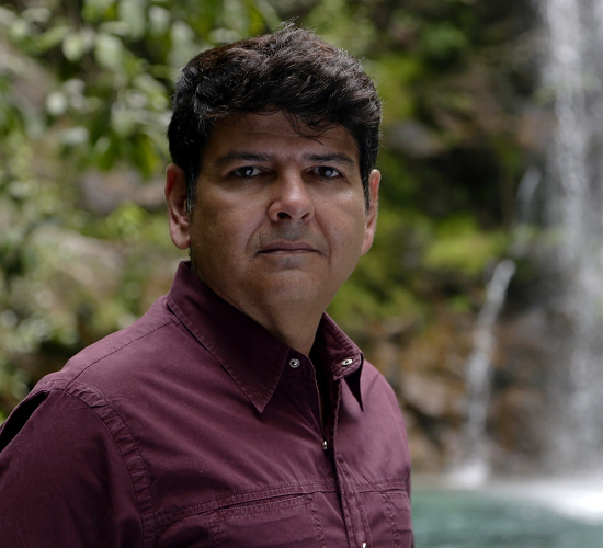 Dener Giovanini